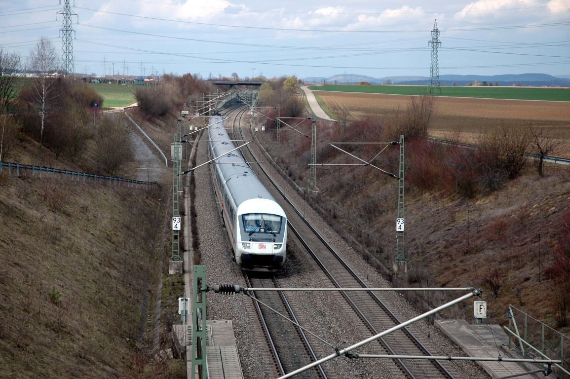 DB AG InterCity train with cab car (Type Bimdzf 269) at the top with direction Stuttgart on the high speed tracks Mannheim-Stuttgart just before the tunnel "Langes Feld", train number unknown.